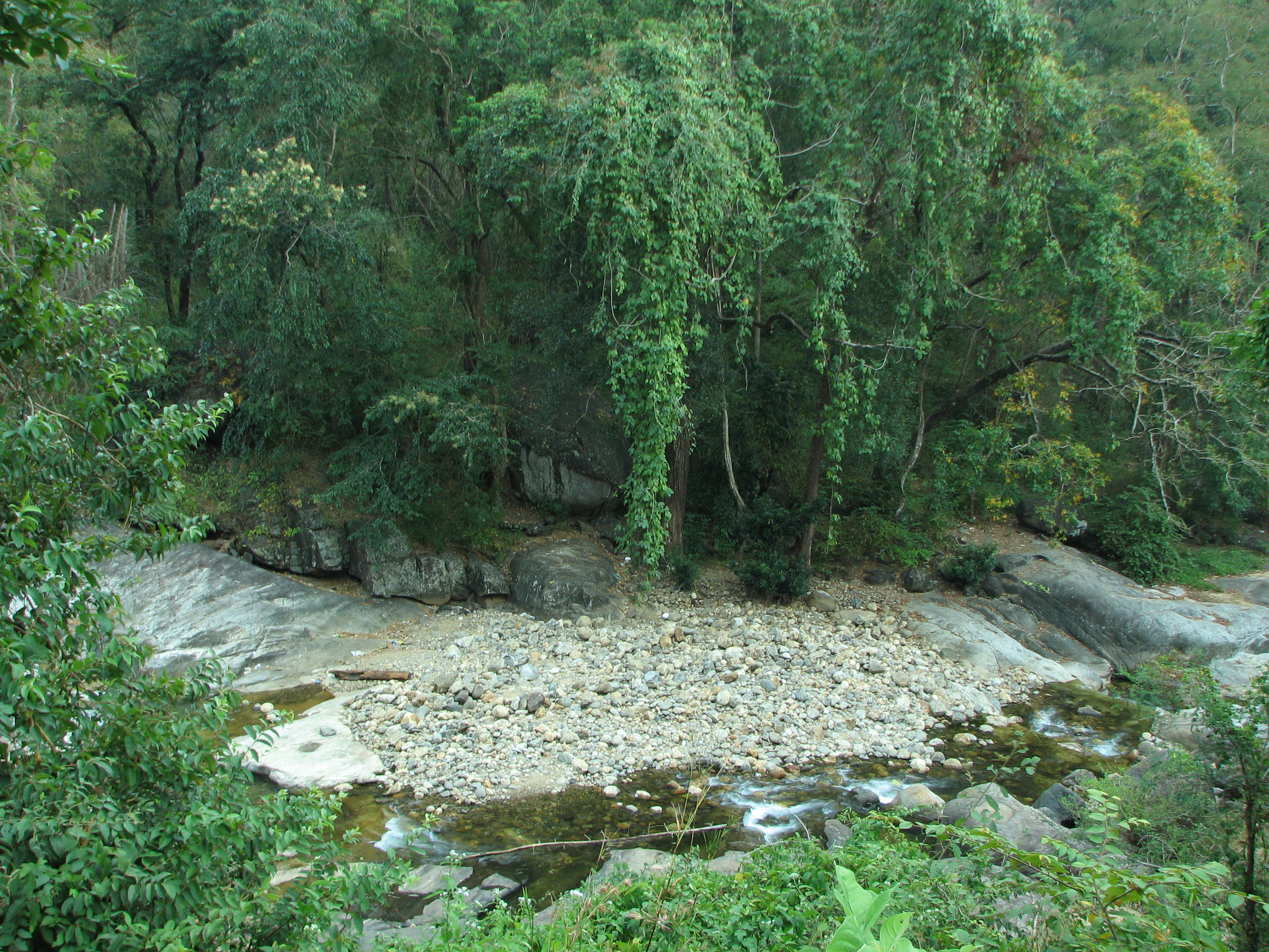 self-made photograph ; Author's Name : Infocaster